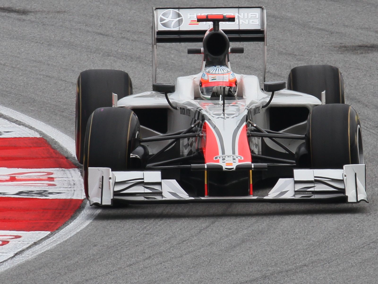 Formula One 2011 Rd.2 Malaysian GP: Narain Karthikeyan (HRT) during the qualify session on Saturday.